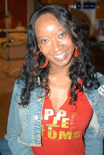 March 20, 2007: Shoots